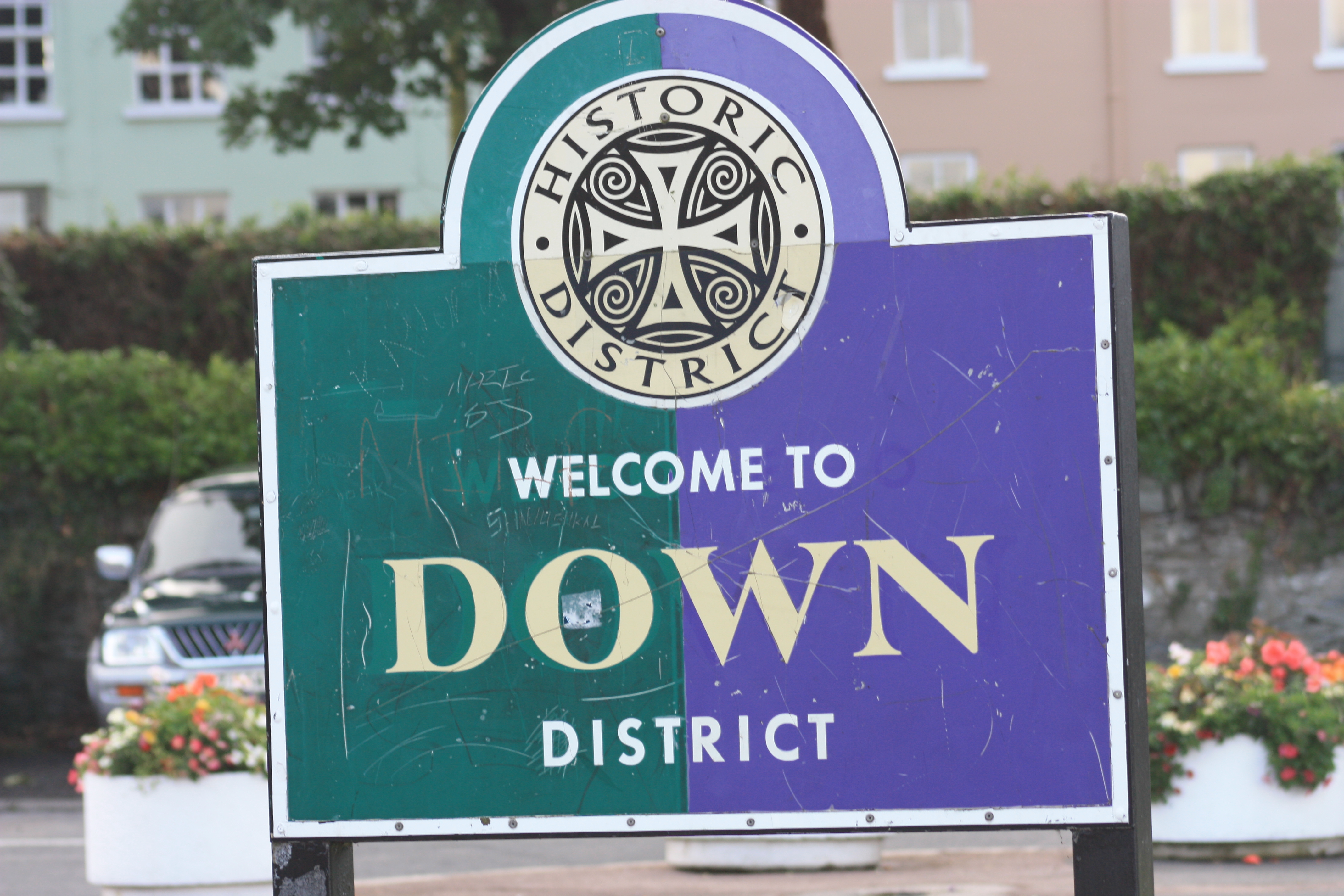 Sign in Strangford, County Down, Northern Ireland, August 2009